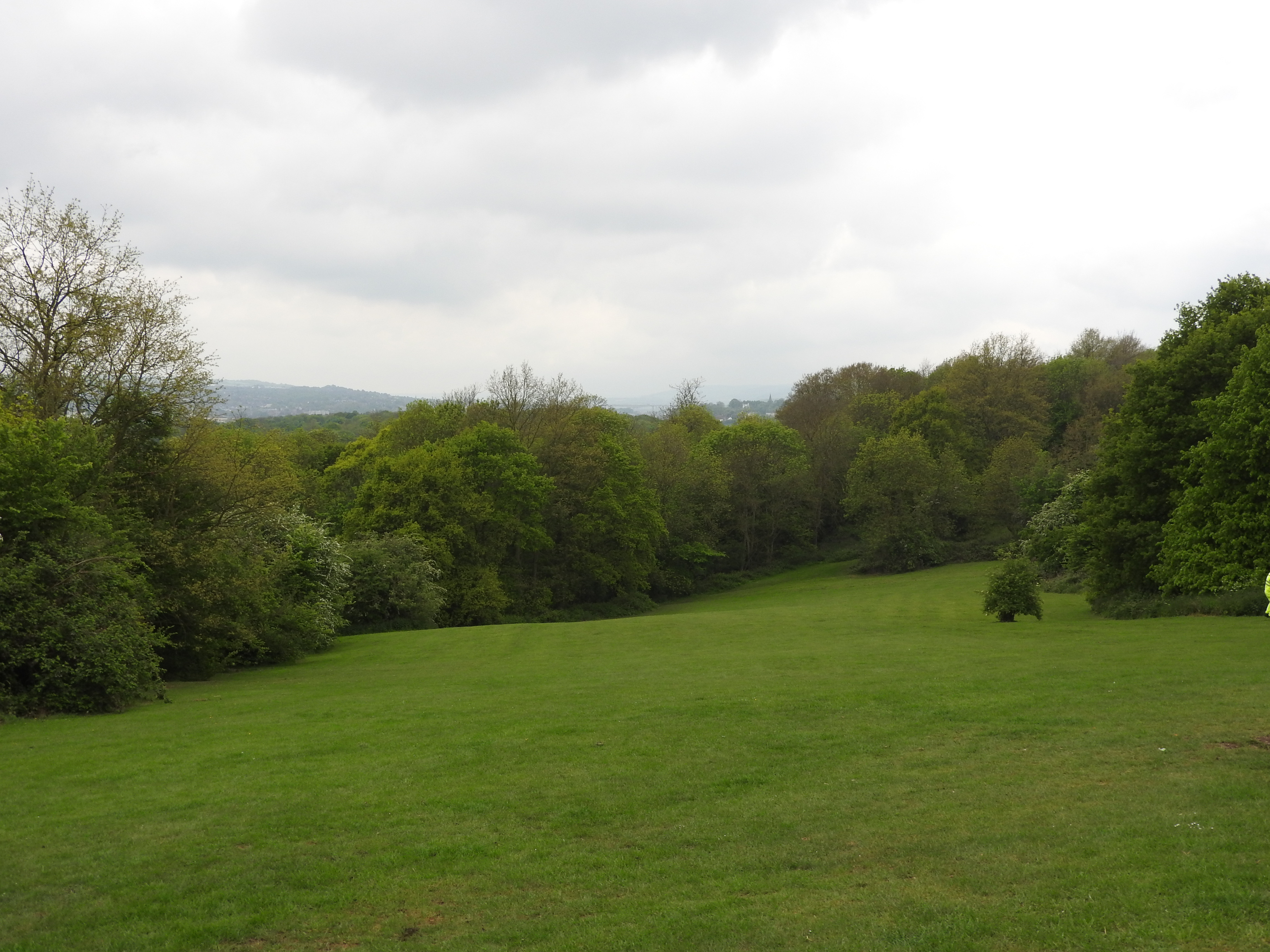 Hoo Common between Upnor (Frindsbury Extra) and Elm Avenue, Chattenden in Medway, on the Saxon Shore Way